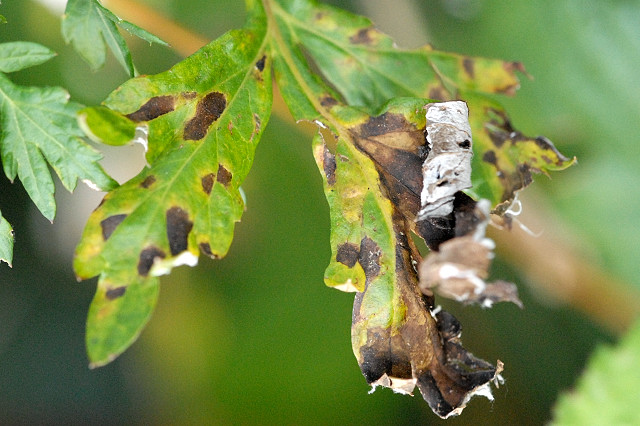 Septoria artemisiae from Commanster, Belgium. If you think this is a different taxon, please contact James Lindsey.